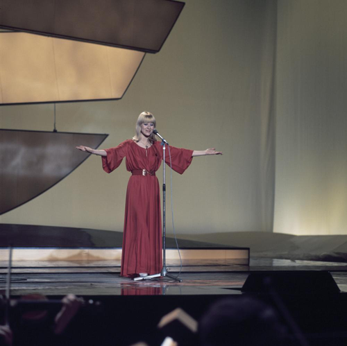 Catherine Ferry at a rehearsal for the Eurovision Song Contest 1976.